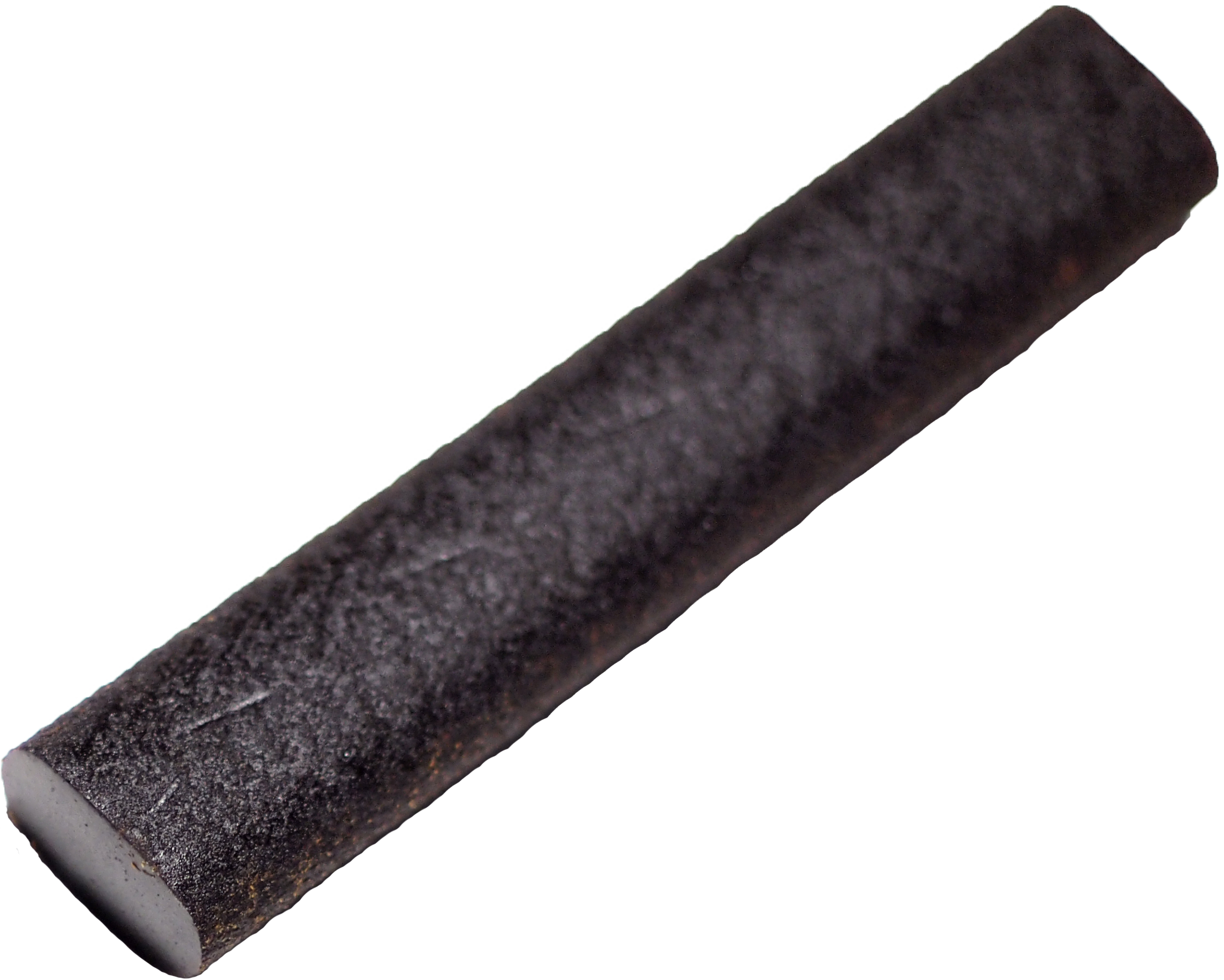 Natural Original Liquorice bar (32 g) by Panda.